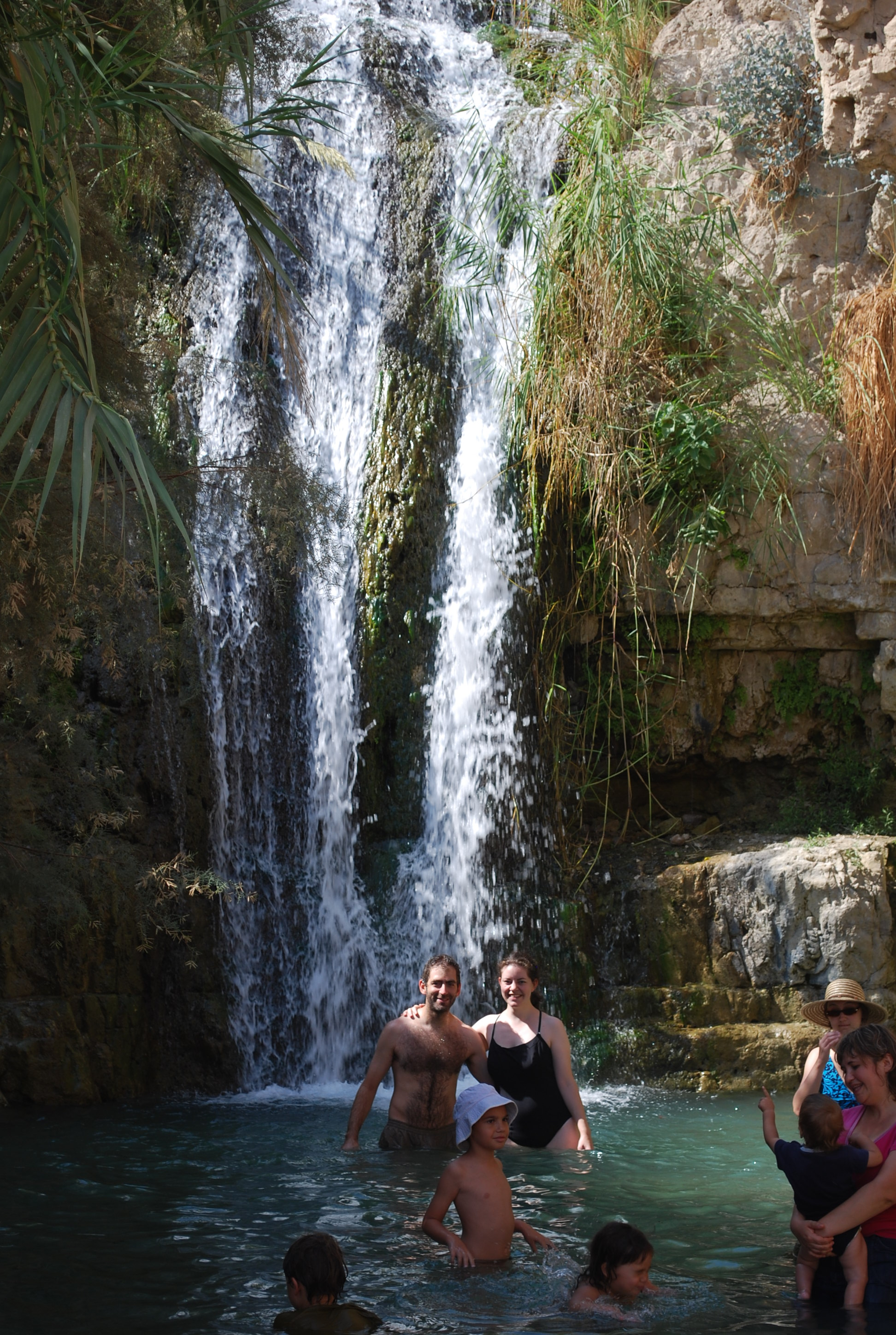 Chad and Jessica enjoying a dip in Ein Gedi Ein Gedi